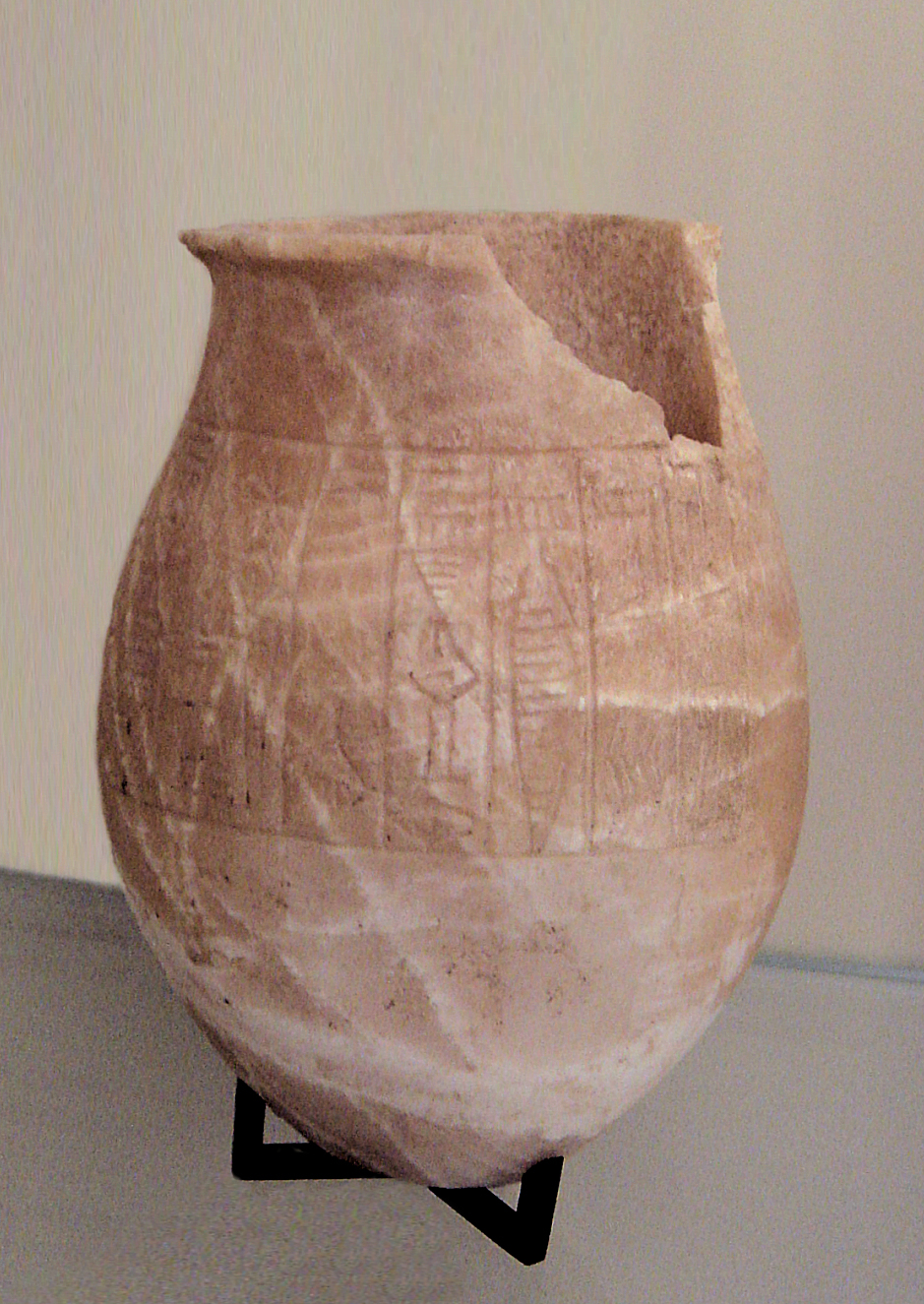 Alabaster vase of Dudu of Akkad Louvre Museum AO 31549 Louvre Museum data Cdli 𒁺𒁺 𒁕𒈝 𒈗 𒀀𒂵𒉈𒆠 𒀀𒈾 𒀭𒊊𒀕𒃲 𒀀𒉈𒀝𒆠 𒀀𒈬𒊒 du-du da-num lugal a-ga-de3{ki} a-na {d}ne3-iri11-gal a-pi5-ak{ki} a mu-ru "Dudu, the Great king of Akkad, for Nergal of Apiak has dedicated this"Site officiel du musée du Louvre. .CDLI-Archival View. .